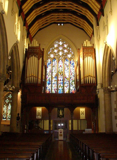 Interior of St Peter's Cathedral – West end, Lancaster The organ is in a loft at the west end of the nave.